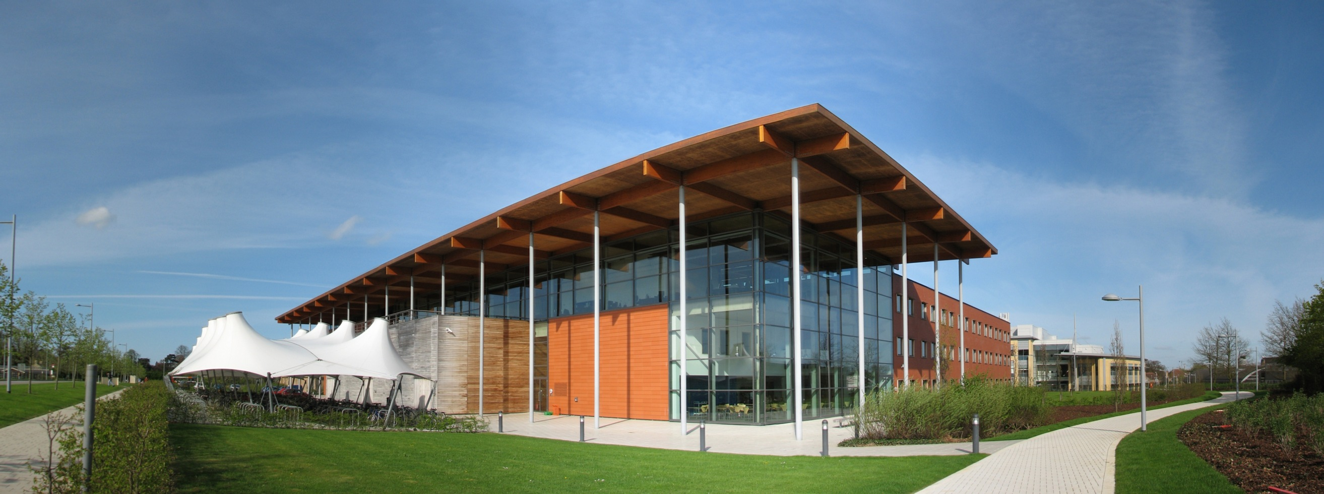 The University of Cambridge Computer Laboratory. This photo has been stitched together from 8 individual photos using AutoStitch.